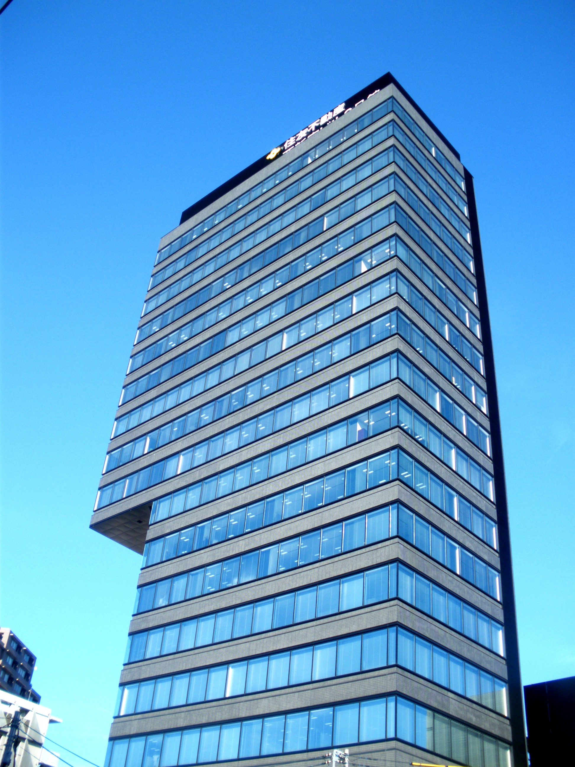 photo of Sumitomo fudosan nishishinjuku building No.6.Honmachi,Shibuya-ku,Tokyo,Japan.